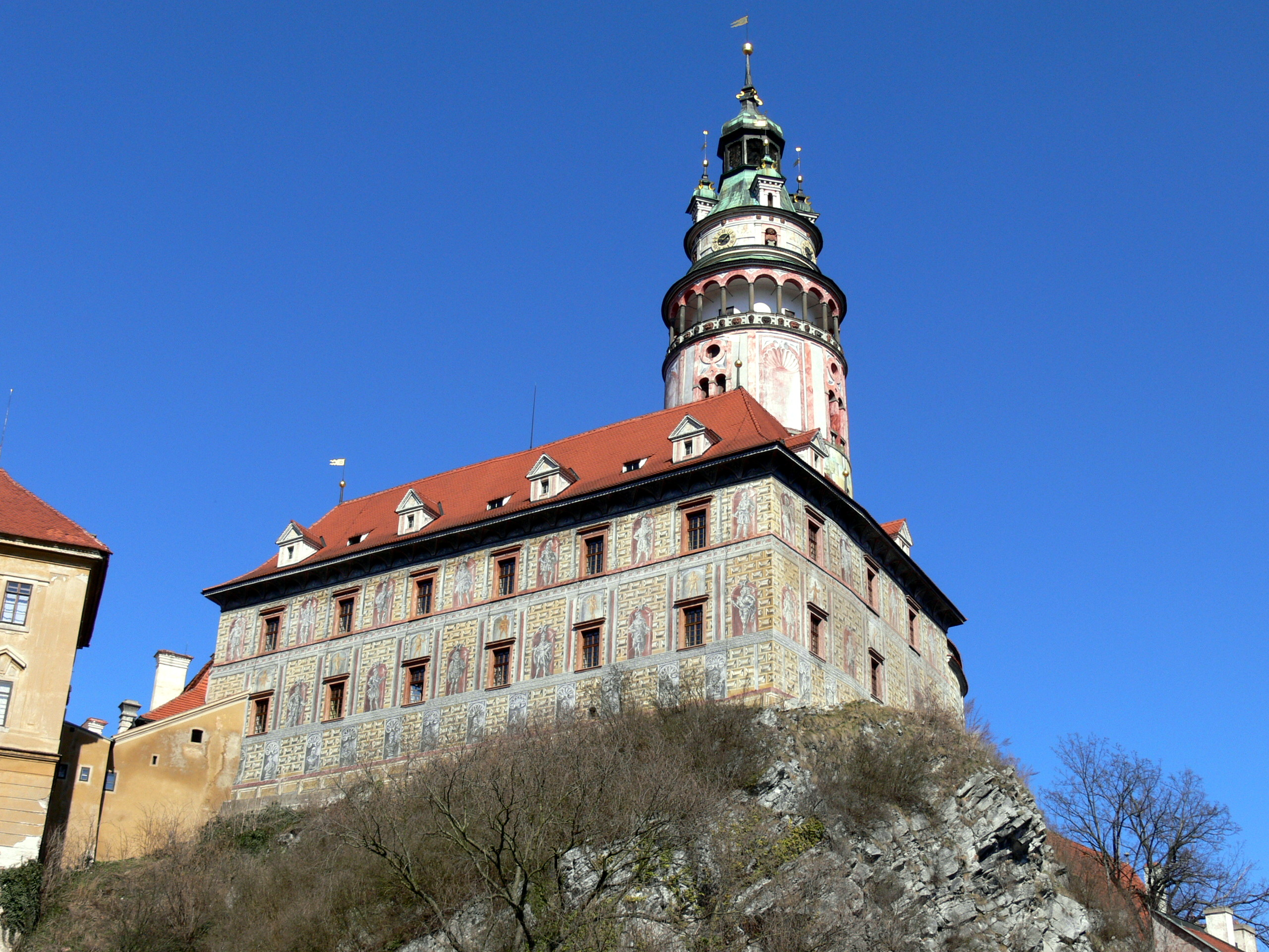 Český Krumlov. Little Castle - View from Vltava river.